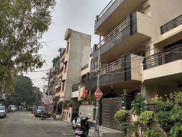 Paschim Vihar